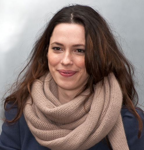 English actress Rebecca Hall leaving the press conference for Please Give.